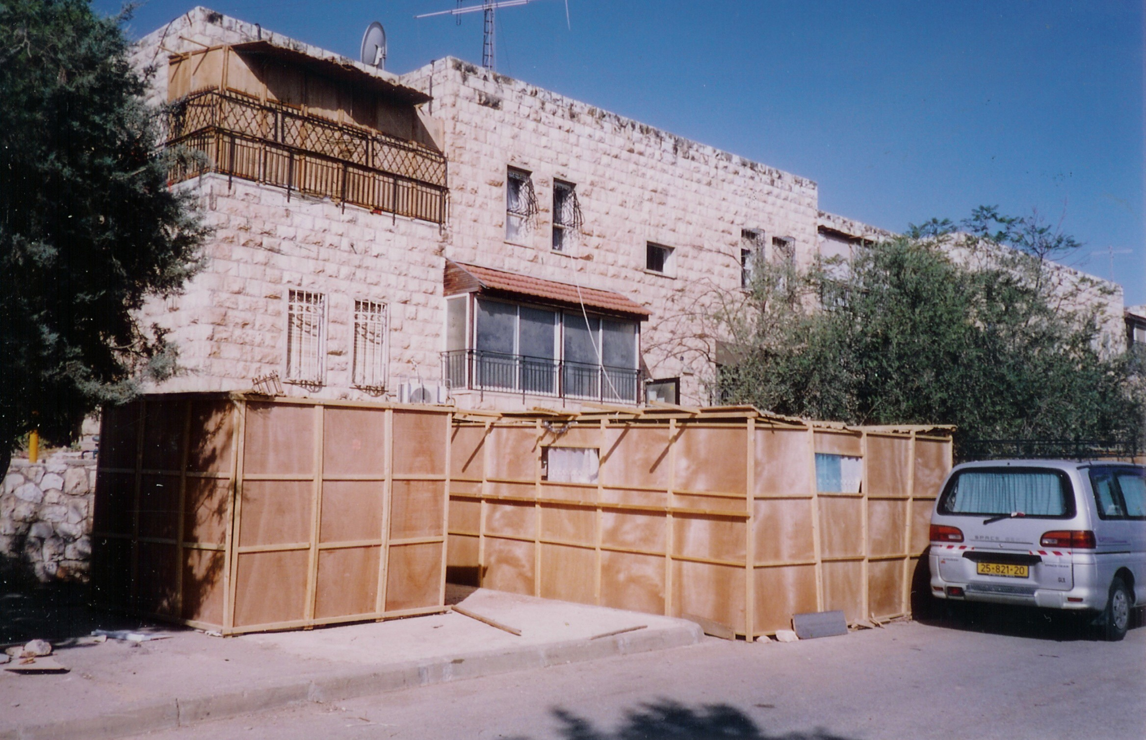 Photo of sukkas on a Jerusalem street and apartment balcony. Photo by Yoninah, taken on 23 October 2005.